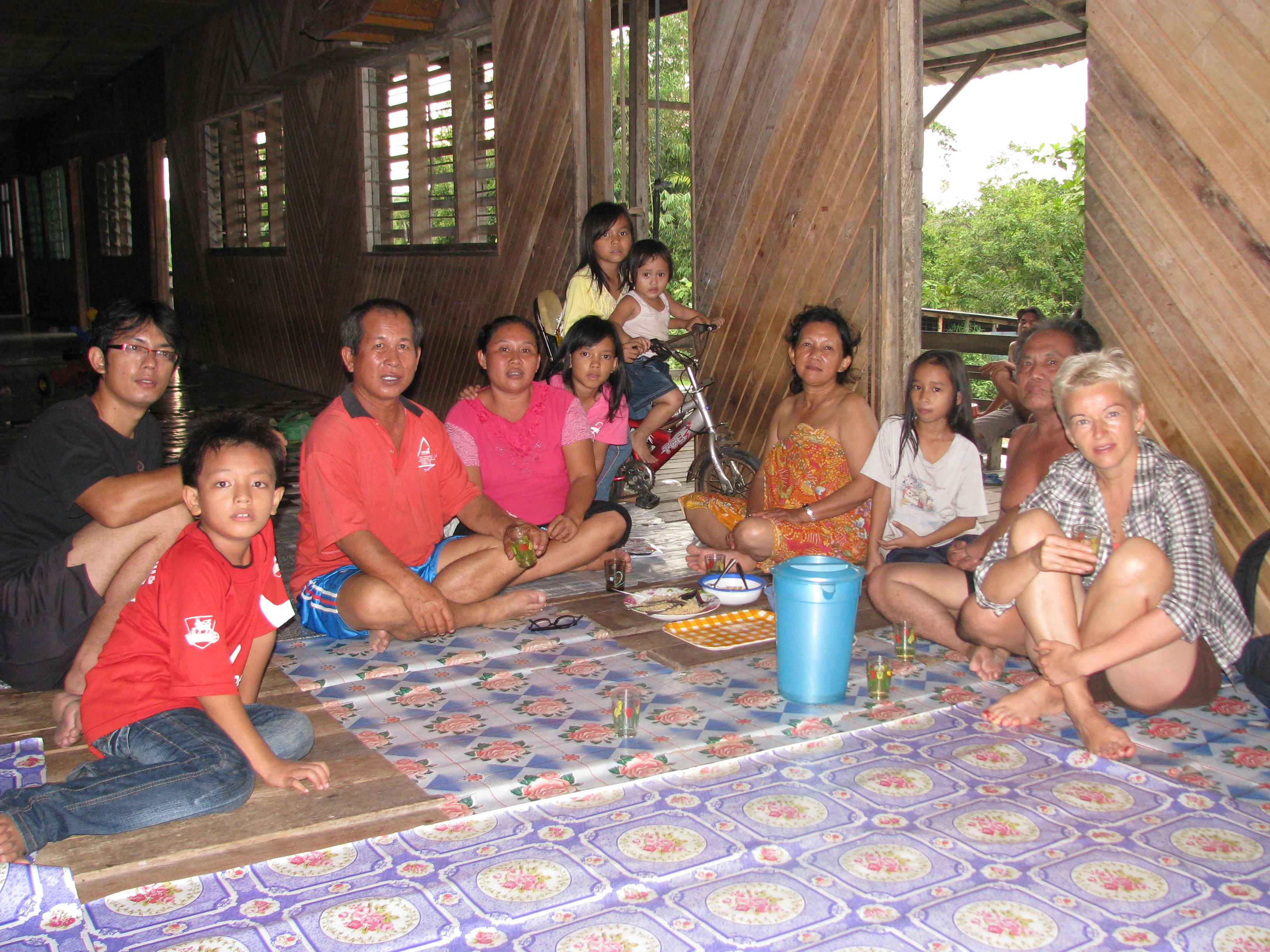 A small two-longhouse settlement on the way from Similjau NP to Bintulu (not sure if the place on the map is right). We called a taxi to get from the national park to Bintulu and the driver asked if we visited a longhouse. We did not and he offered to make a small turn and see one. One family was having a dinner and invited us to join. We had great time - drunk rice "wine", danced and chatted. Everything went to well and natural that at some point we worried it was some tourist scam. Apparently not. The driver did charge some extra money for his time but it was well worth it!